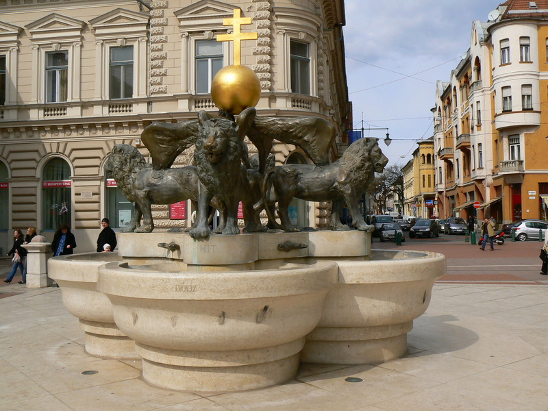 Kára Tóbiás sculptor drinking-fontain 2000. Szeged